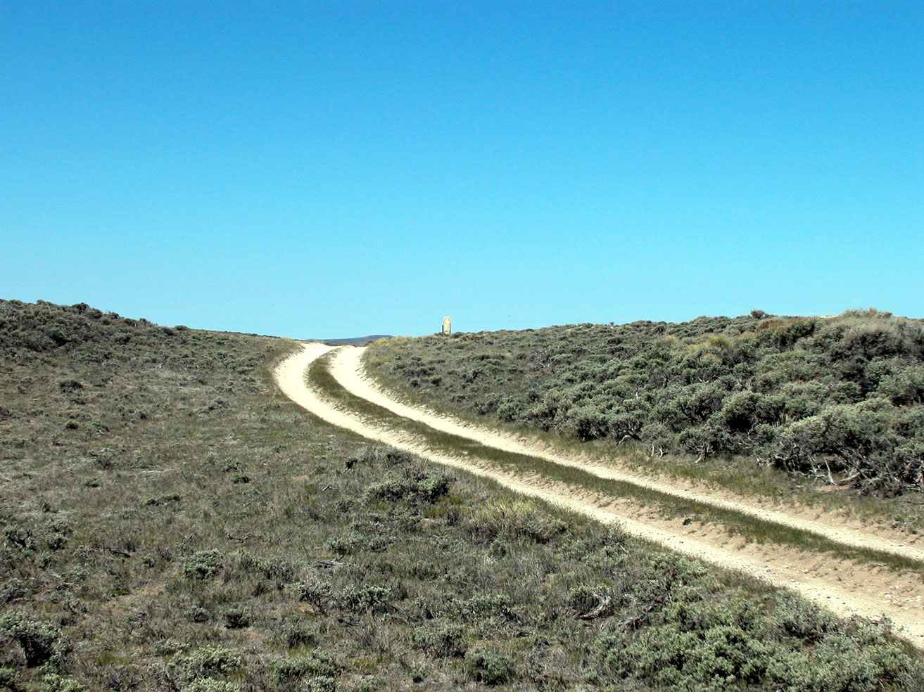 South Pass, Wyoming on Oregon National Historic Trail